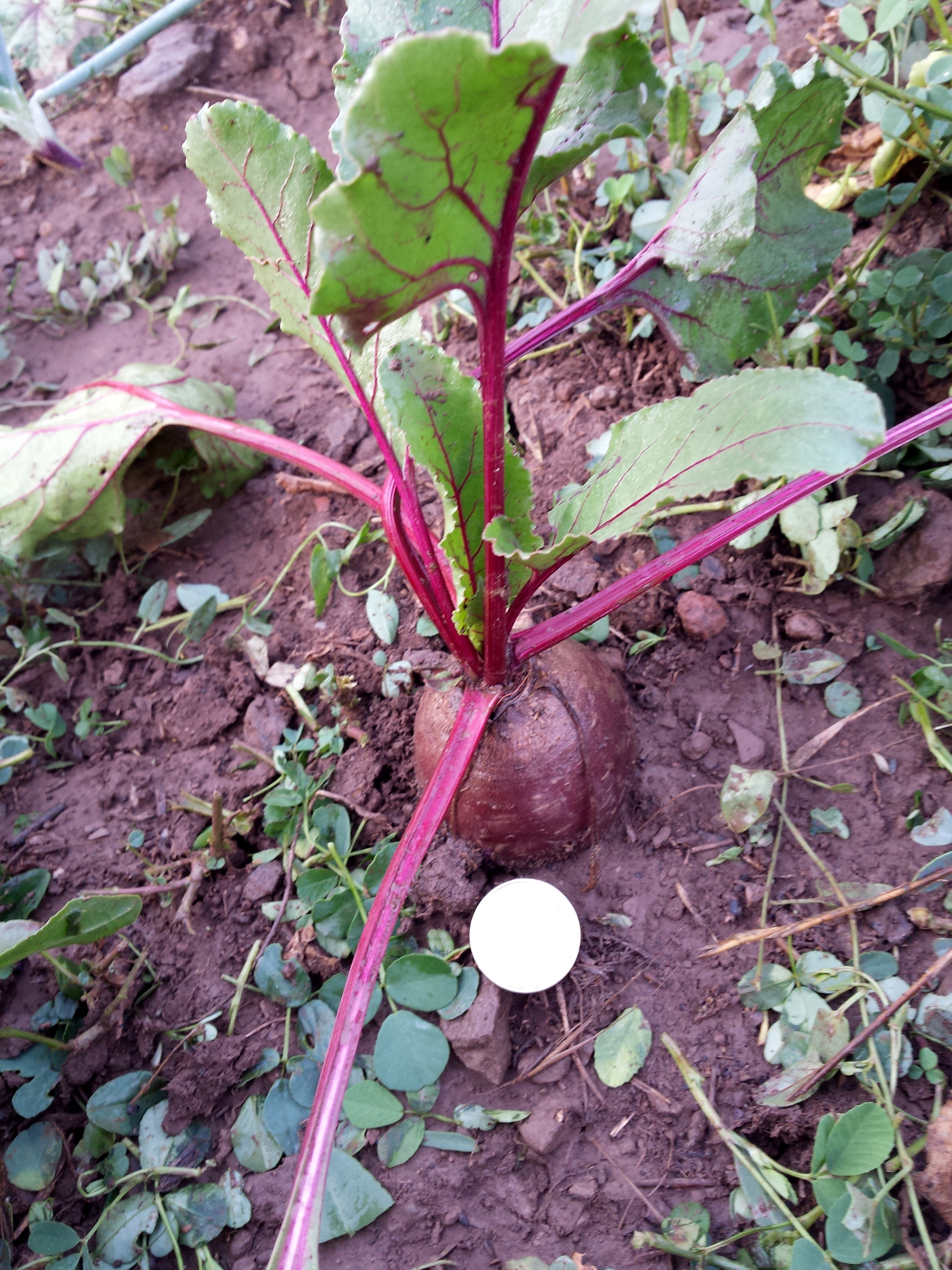 A beetroot plant on the field, Serra de Castelltallat